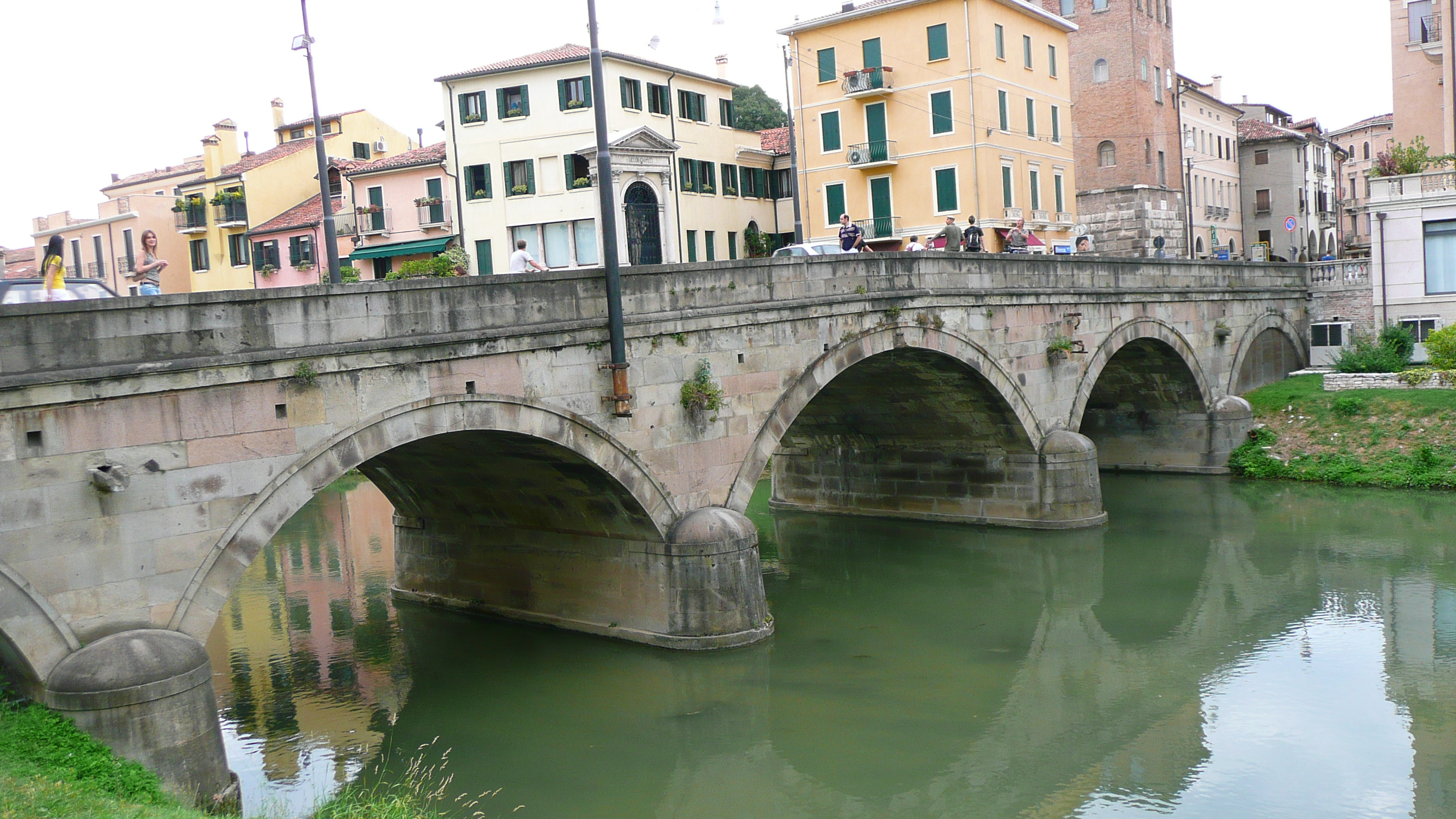 Roman Ponte Molino, Padua, Italy